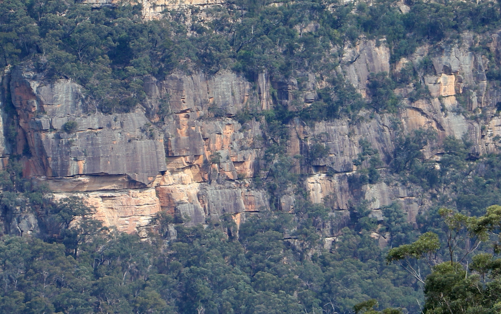 Burra-Moko Head Sandstone, below the line of Mount York Claystone